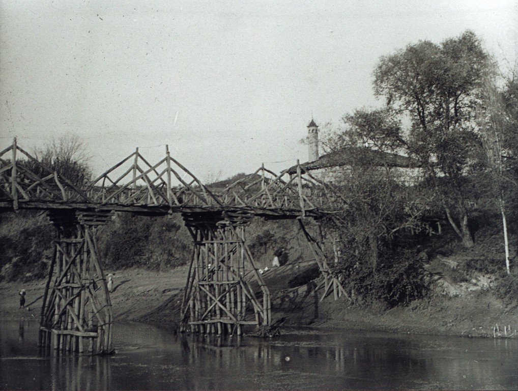 The one-time wooden bridge at Koxhaz near Shijak, on the road from Durrës to Tirana. ca. 1914. Ura e dikurshme prej drurit në Koxhaz të Shijakut në rrugën nga Durrësi për në Tiranë. Rreth 1914.